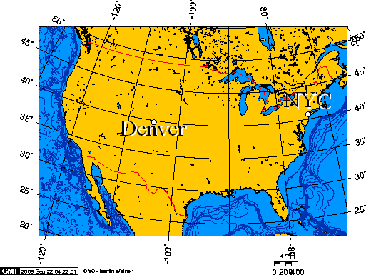 Denver and New York City. On September 15th 2009 American security officials arrested Najibullah Zazi, a citizen of Afghanistan with permanent resident status in the USA. They claim that Zazi drove from Denver to New York City between September 9th and September 10th.